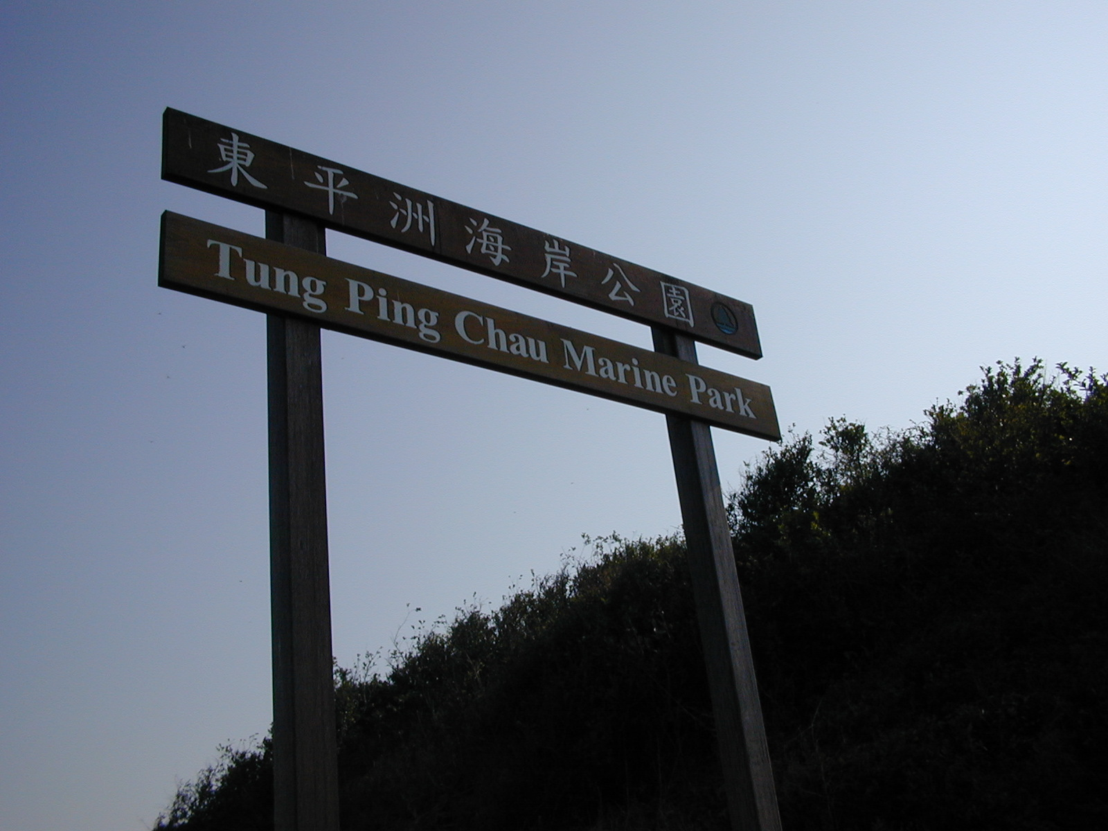 Photo of Tung Ping Chau Marine Park